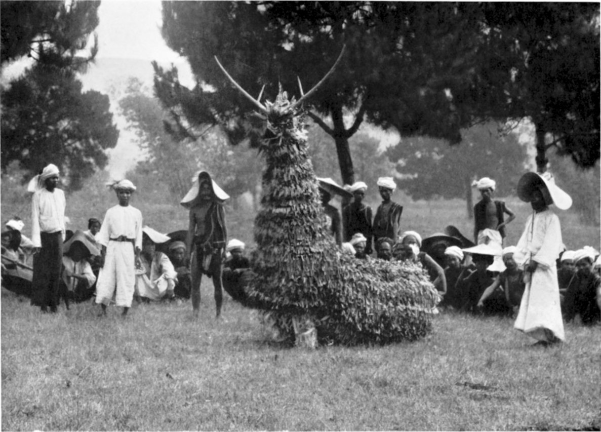 A Shan ceremonyOn festival occasions representations of fabulous or heraldic animals often make their appearance. The Shans are particularly fond of them, and this is a sample of the fearsome deer that dwell in haunted forests.